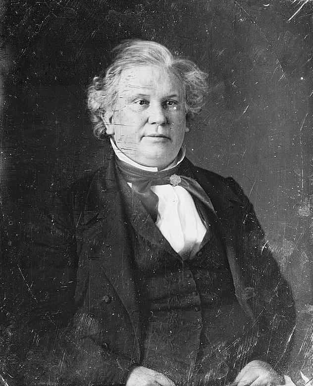 John Y. Mason, Democratic Congressman from Virginia, 1831-1837; Secretary of the Navy, 1844-1845, 1846-1849; U.S. Attorney General, 1845-1846; U.S. Minister to France, 1854-1859.